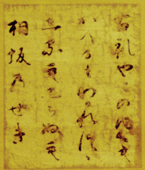 Ogura Poem Sheet, Poem by Semimaru Ink on paper, early 13th century, about 16cm height, Tokyo National Museum, Tokyo, Japan